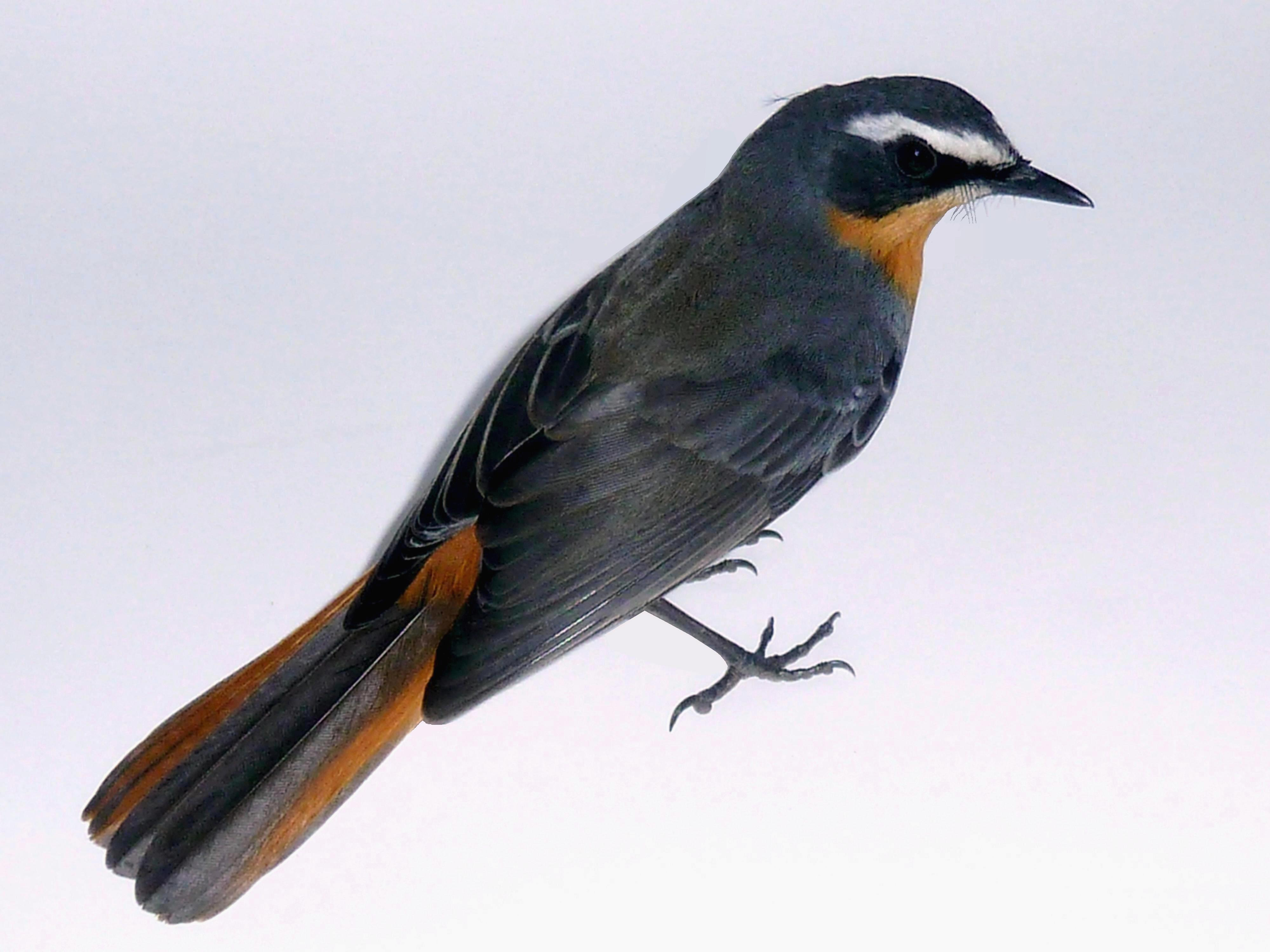 Cape robin-chat perched on white sheet of paper